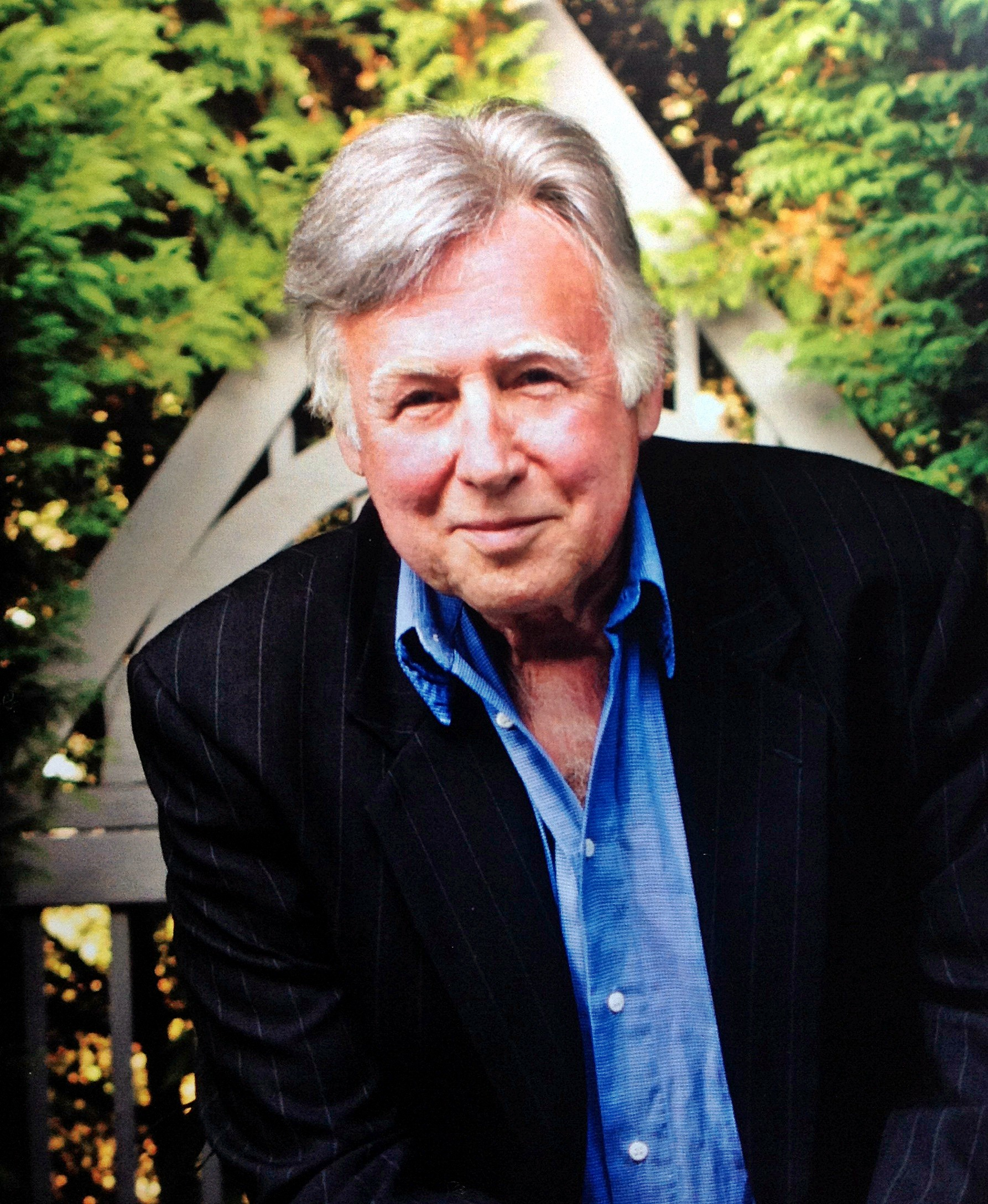 Tony Sandler, Belgian born American singer & entertainer